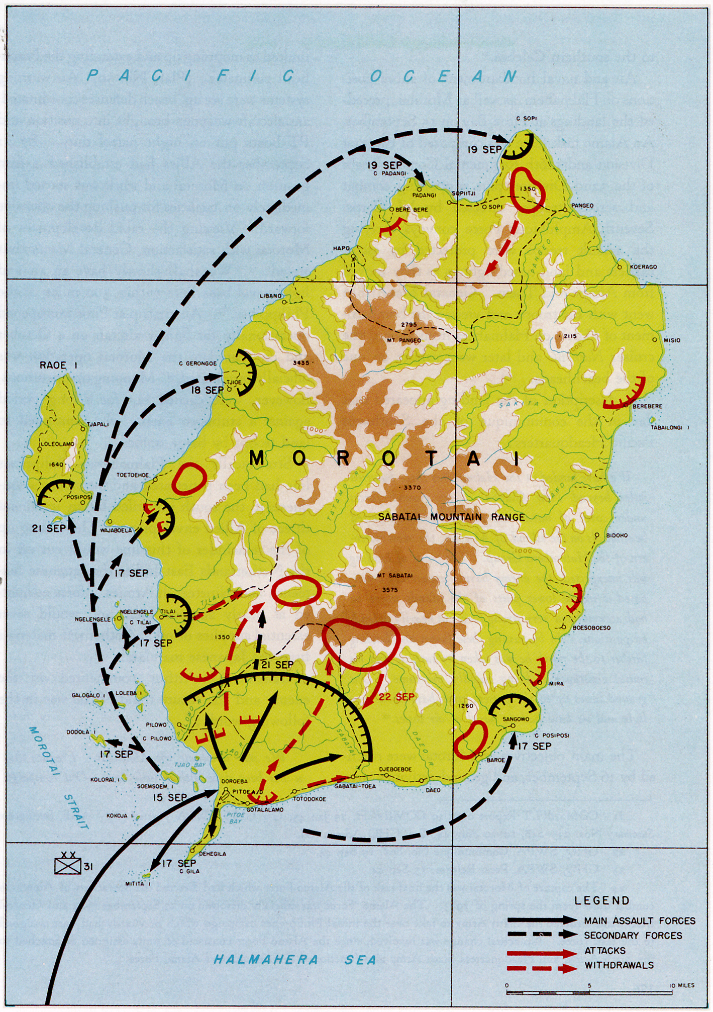 A map of Morotai island showing the movements of Allied and Japanese forces during the battle which was fought on the island in September 1944